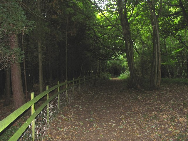 Cotswold Way, Dowdeswell Woods. This square is dominated by Dowdeswell Woods a Gloucestershire nature reserve on the hill above the reservoir and the A40. The Cotswold Way runs across part of the western edge of the square.